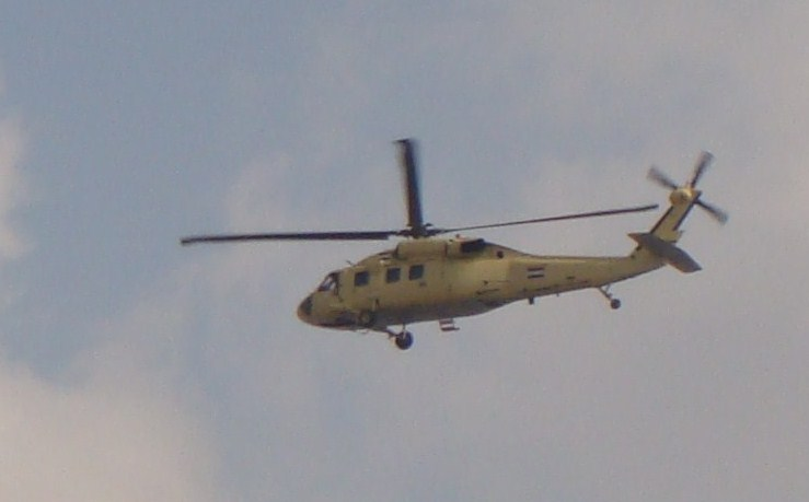 Egyptian UH-60 Blackhawk